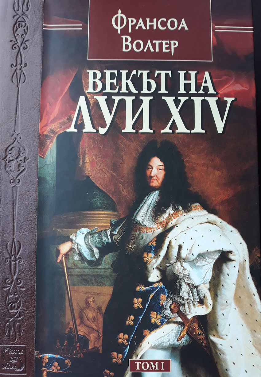 The Age of Louis XIV by Voltaire